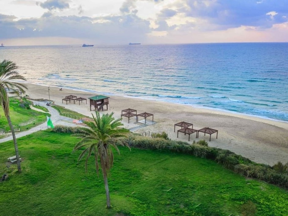 Ashkelon National Park